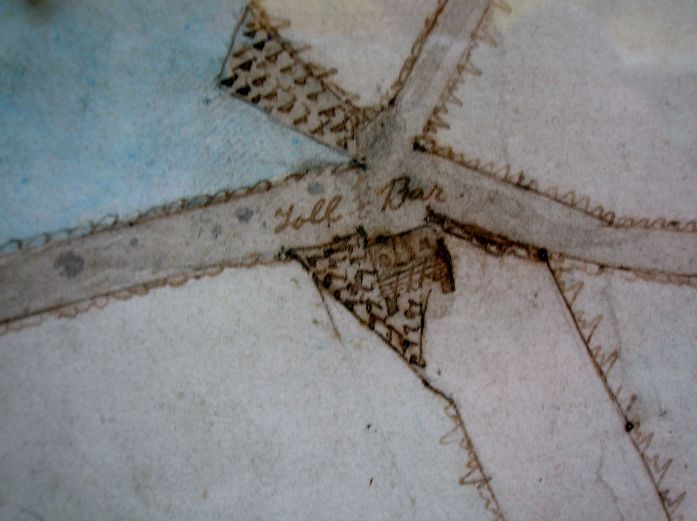 Netherhill Toll in 1850, Gateside, North Ayrshire, Scotland.